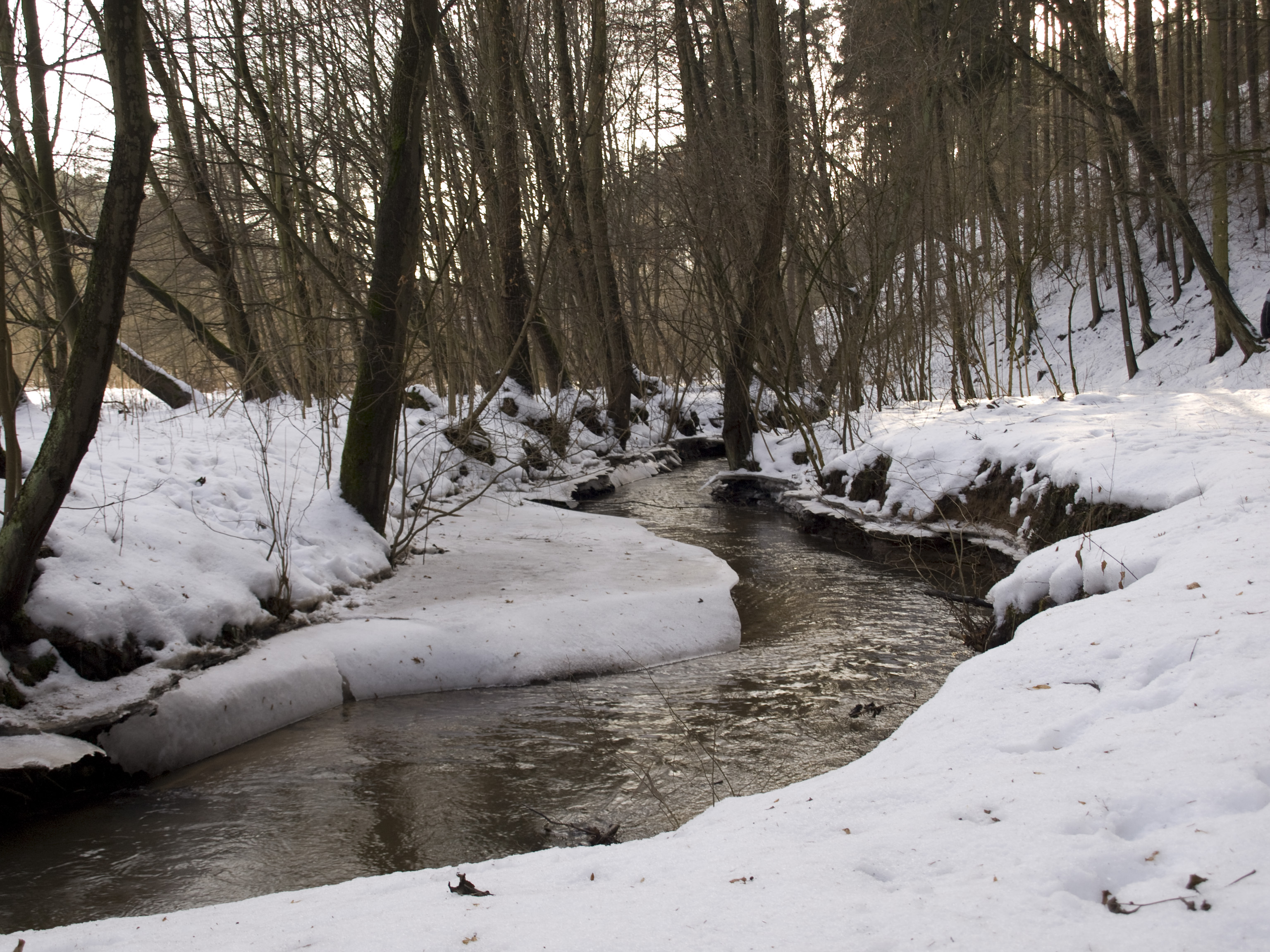 Liběchovka near Tupadly, Tupadly, Central Bohemian Region Region